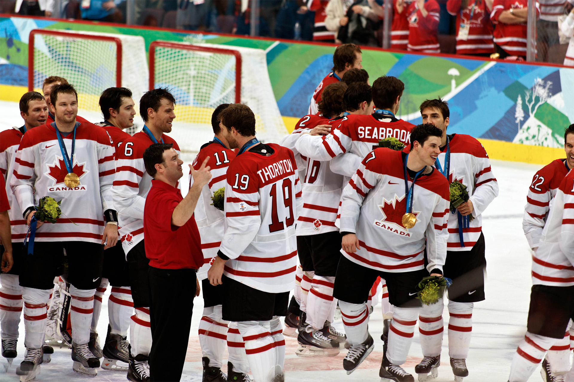 Canada forward Sidney Crosby celebrates with the gold medal after defeating the United States during the 2010 Winter Olympics